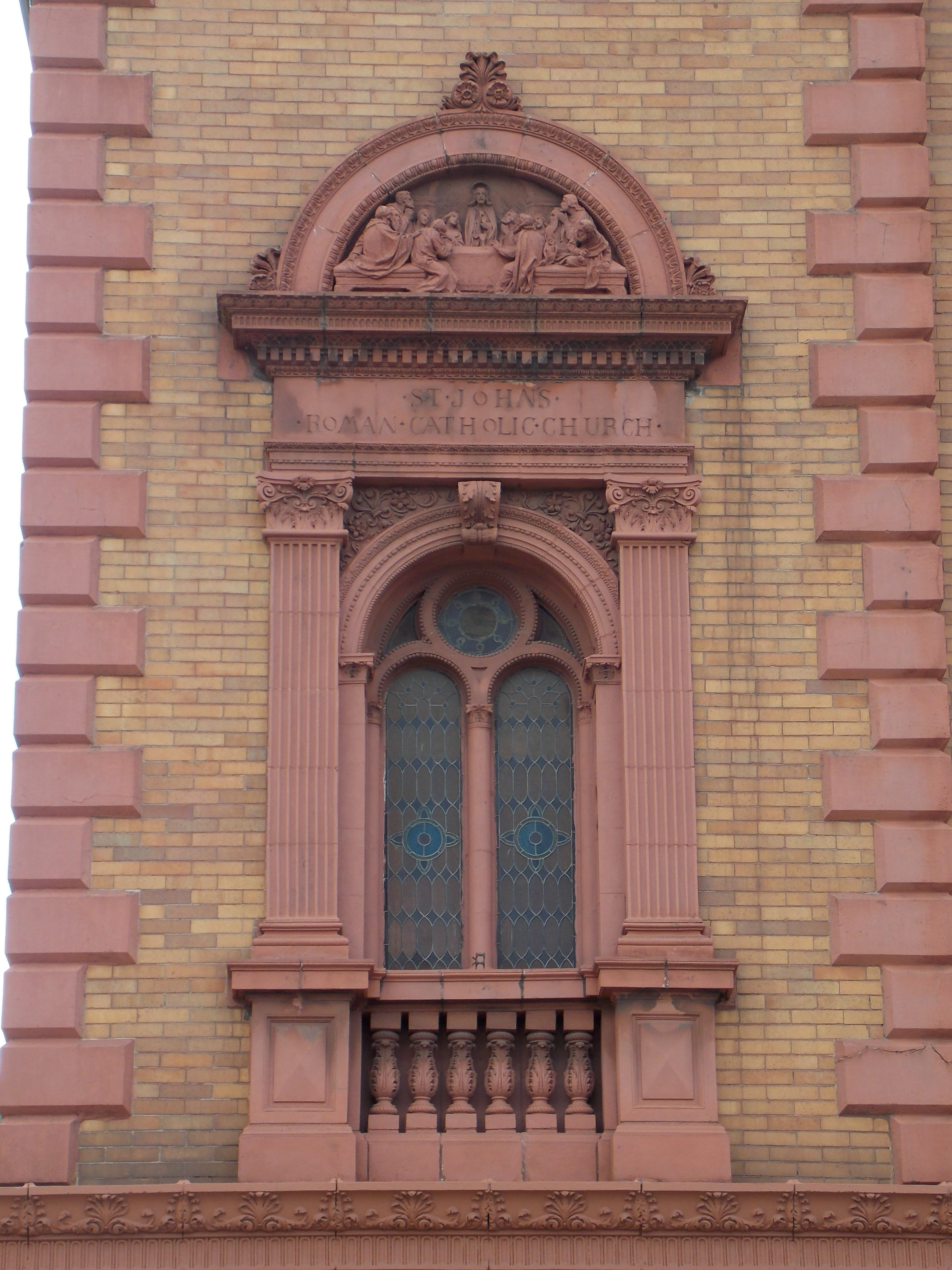 A window on the facade of St. John Gualbert Cathedral in Johnstown, Pennsylvania.